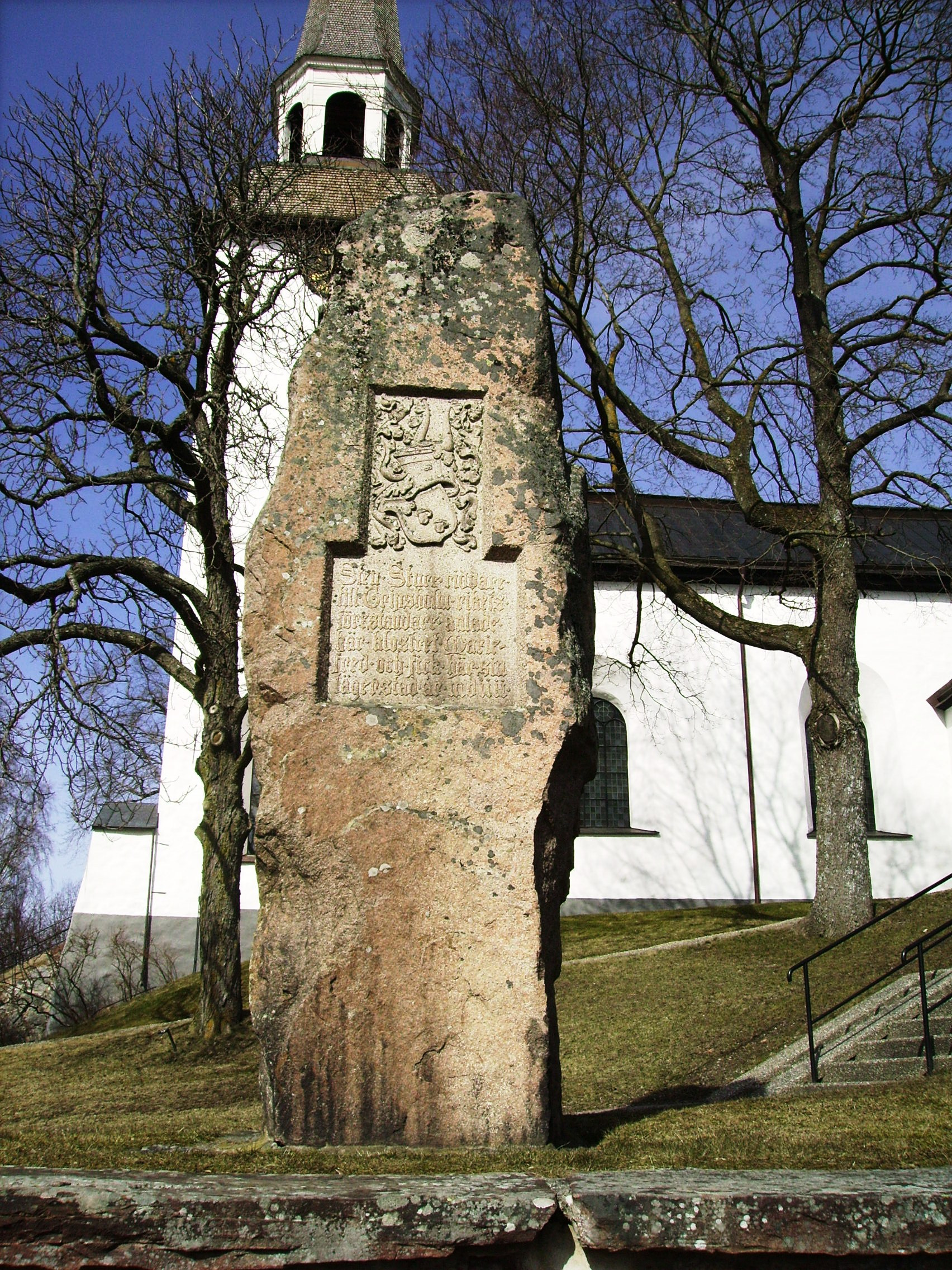 Picture of monument of Sten Sture elder at Mariefreds kyrka in Södermanland